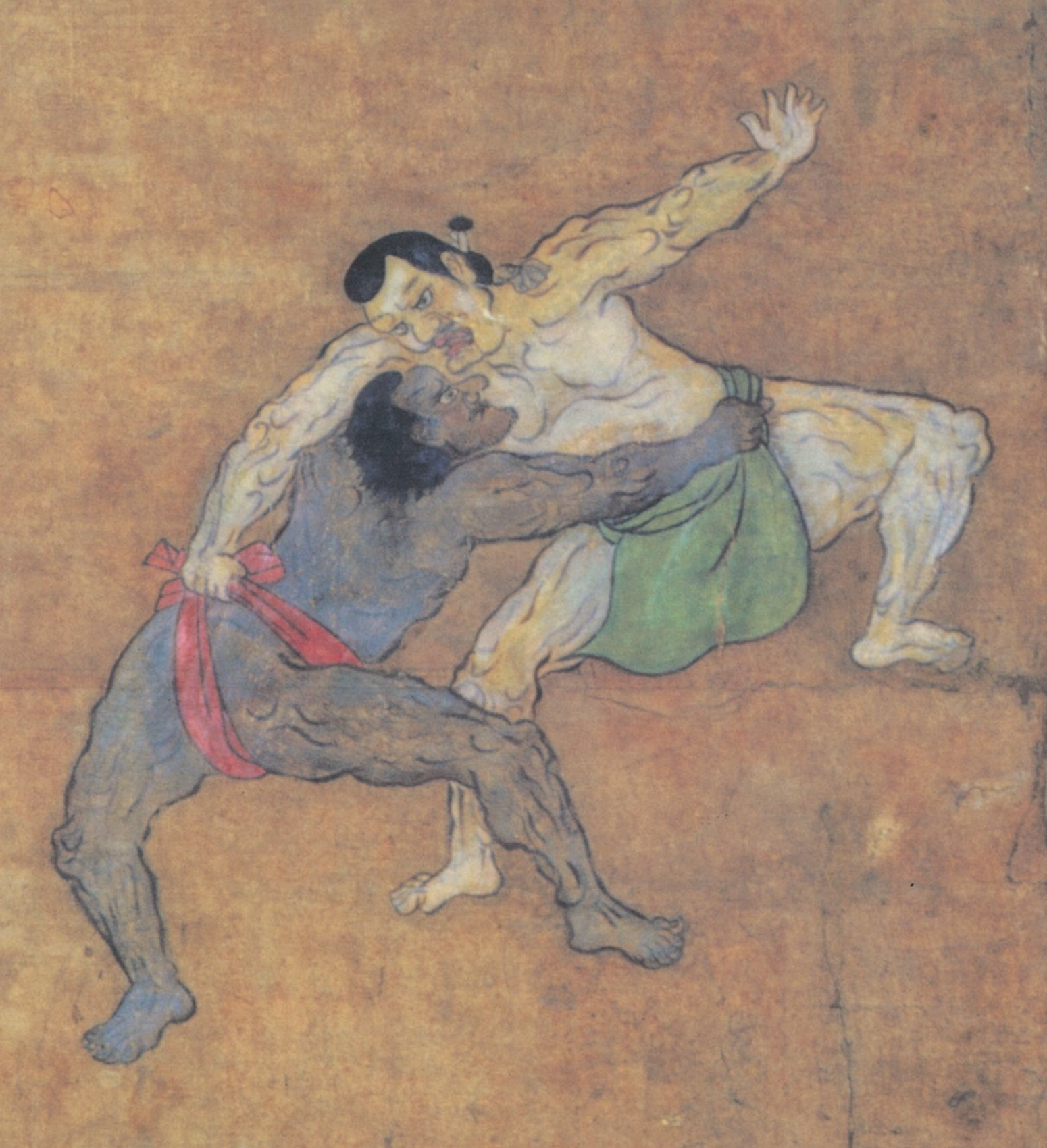 Sumō yūrakuzu byōbu, Detail: A black man wrestling with Japanese